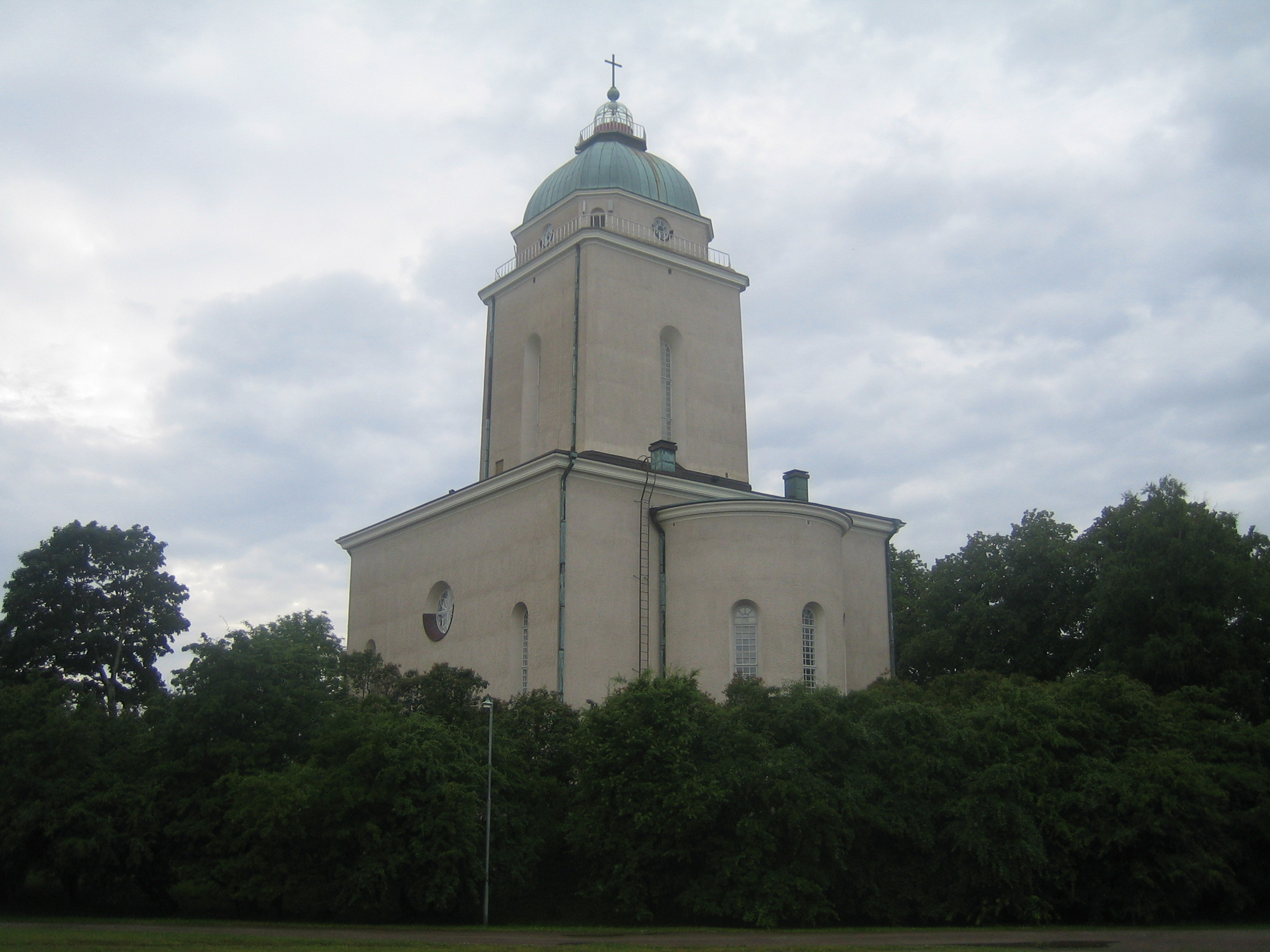 Combined church and lighthouse of Suomenlinna in Helsinki, Finland.